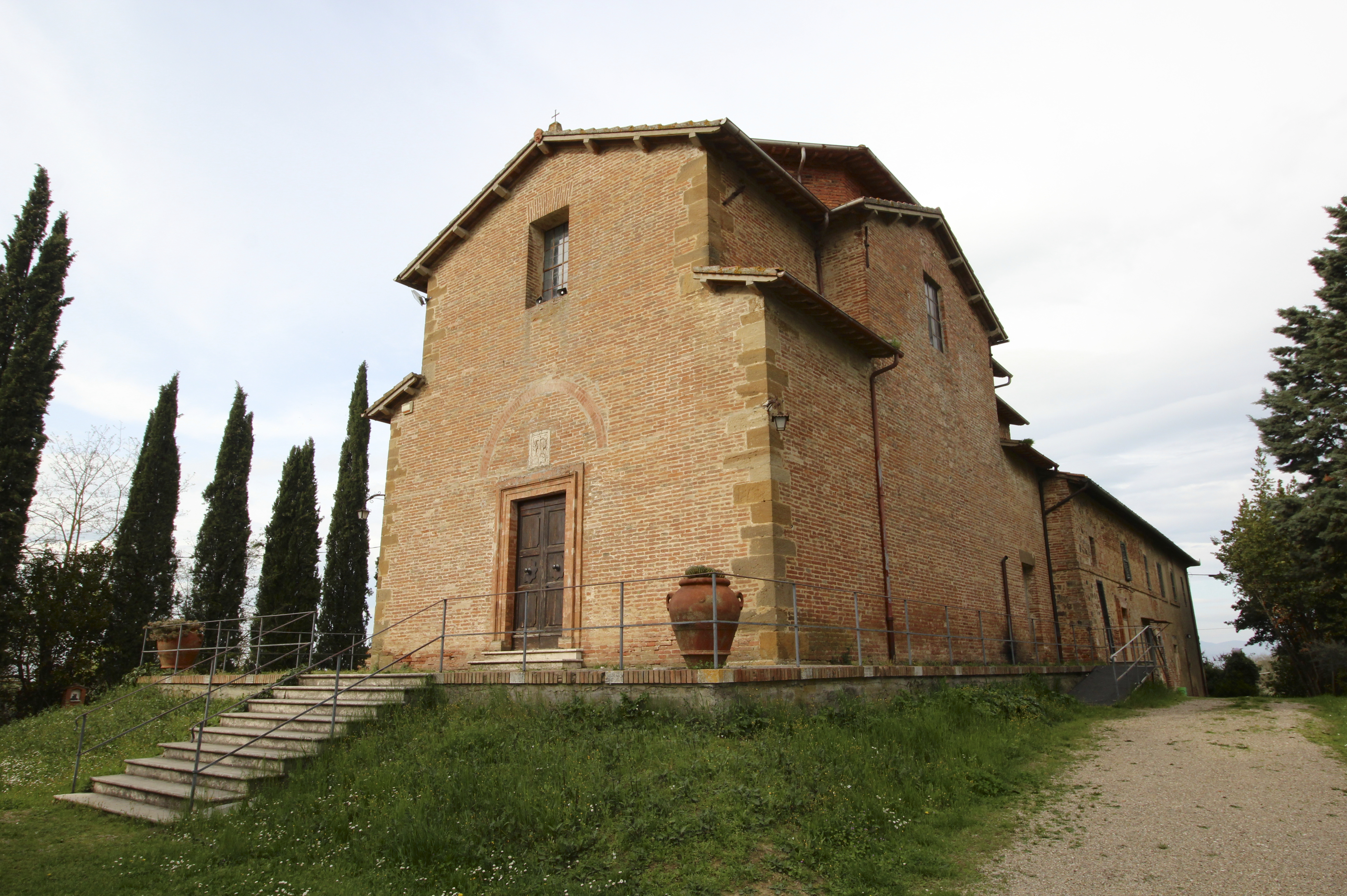 Church Sant'Ansano, Petrignano (Petrignano del Lago), hamlet of Castiglione del Lago, Province of Perugia, Umbria, Italy